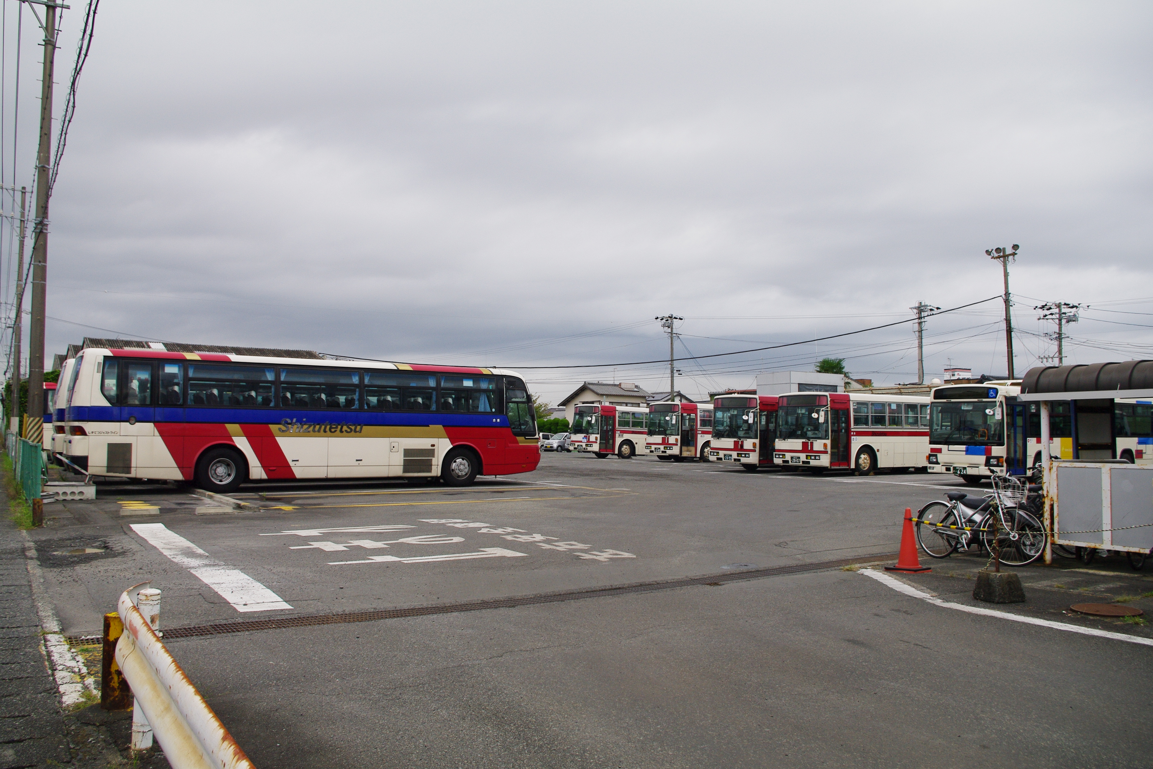 Shizutetsu Justline Sagara Depot